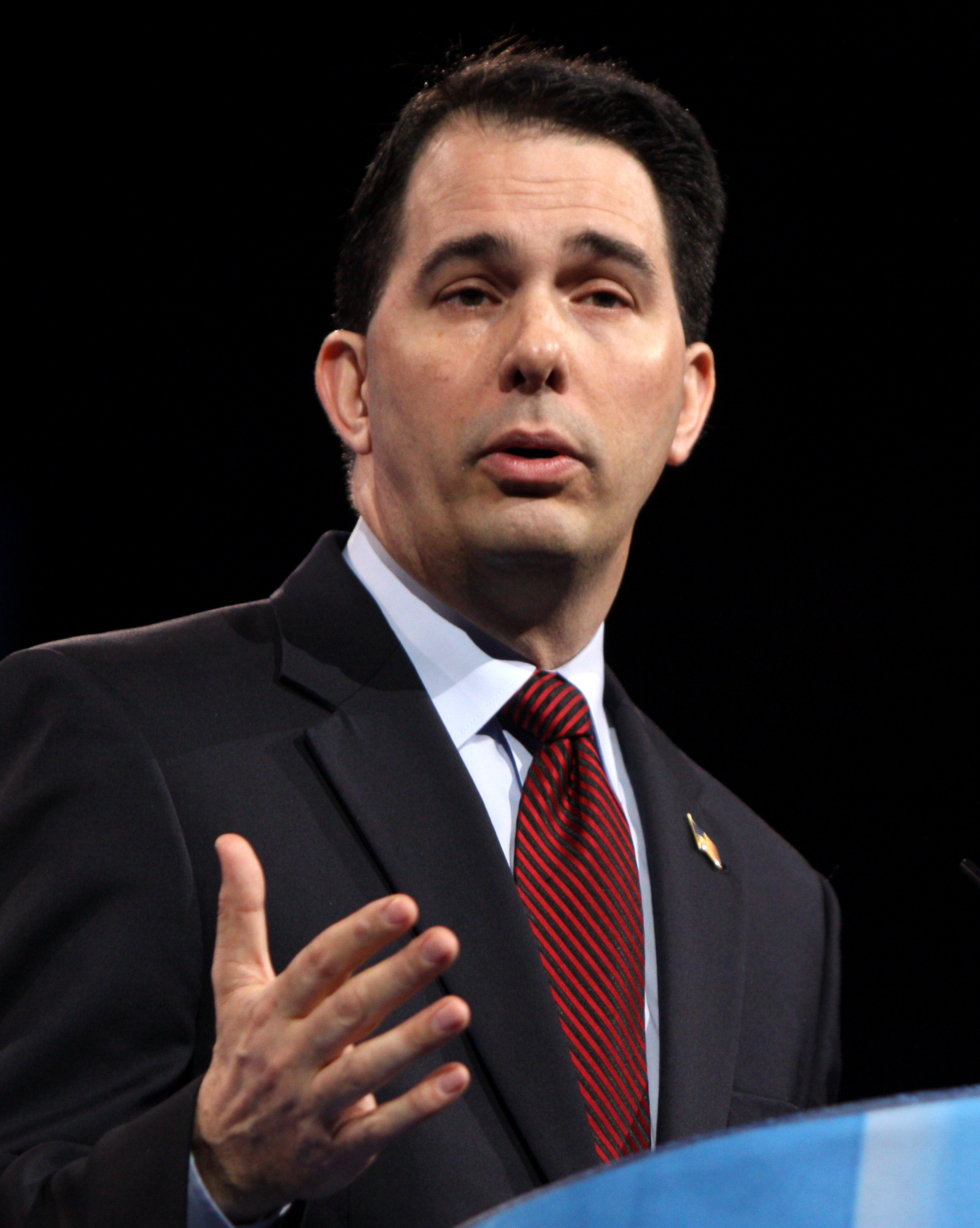 Scott Walker speaking at the 2013 CPAC in Washington D.C. on March 15, 2013.